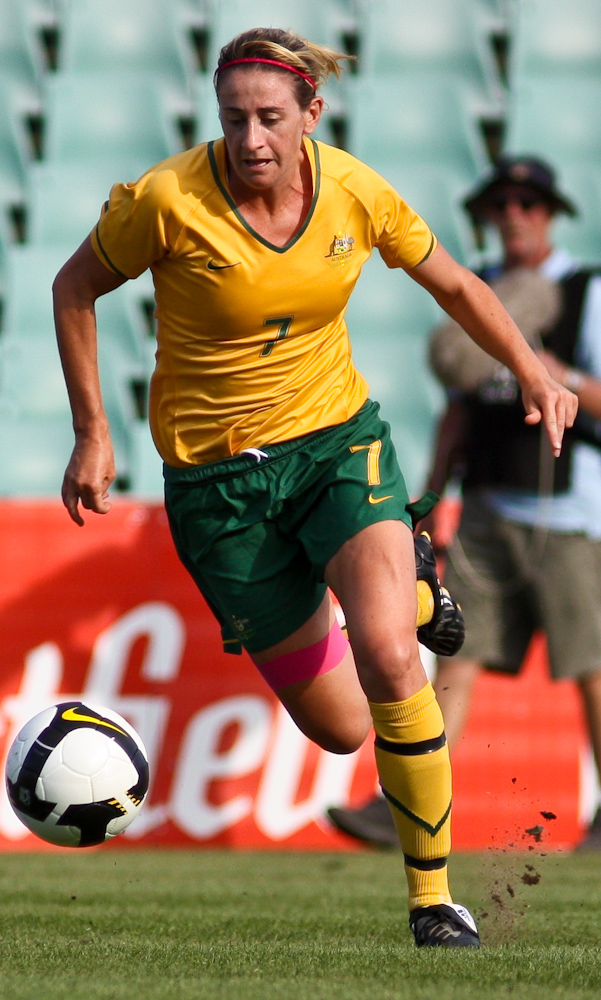 Heather Garriock playing for the Australian Women's Football Team against Italy in a friendly international.